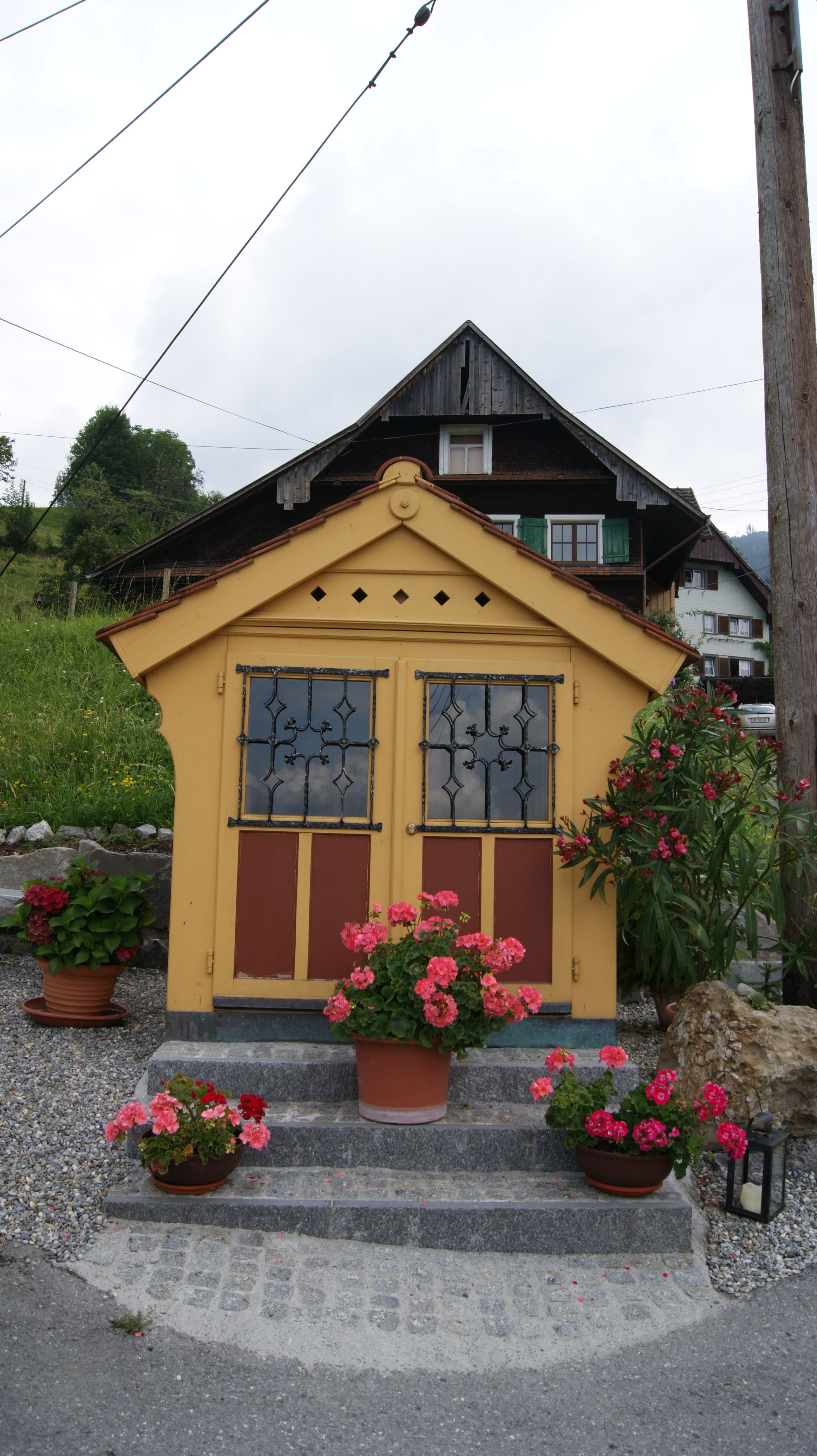 Chapel on the Hill "Unterfallberg" in Dornbirn, Vorarlberg, Austria. Chapel with the doors closed.